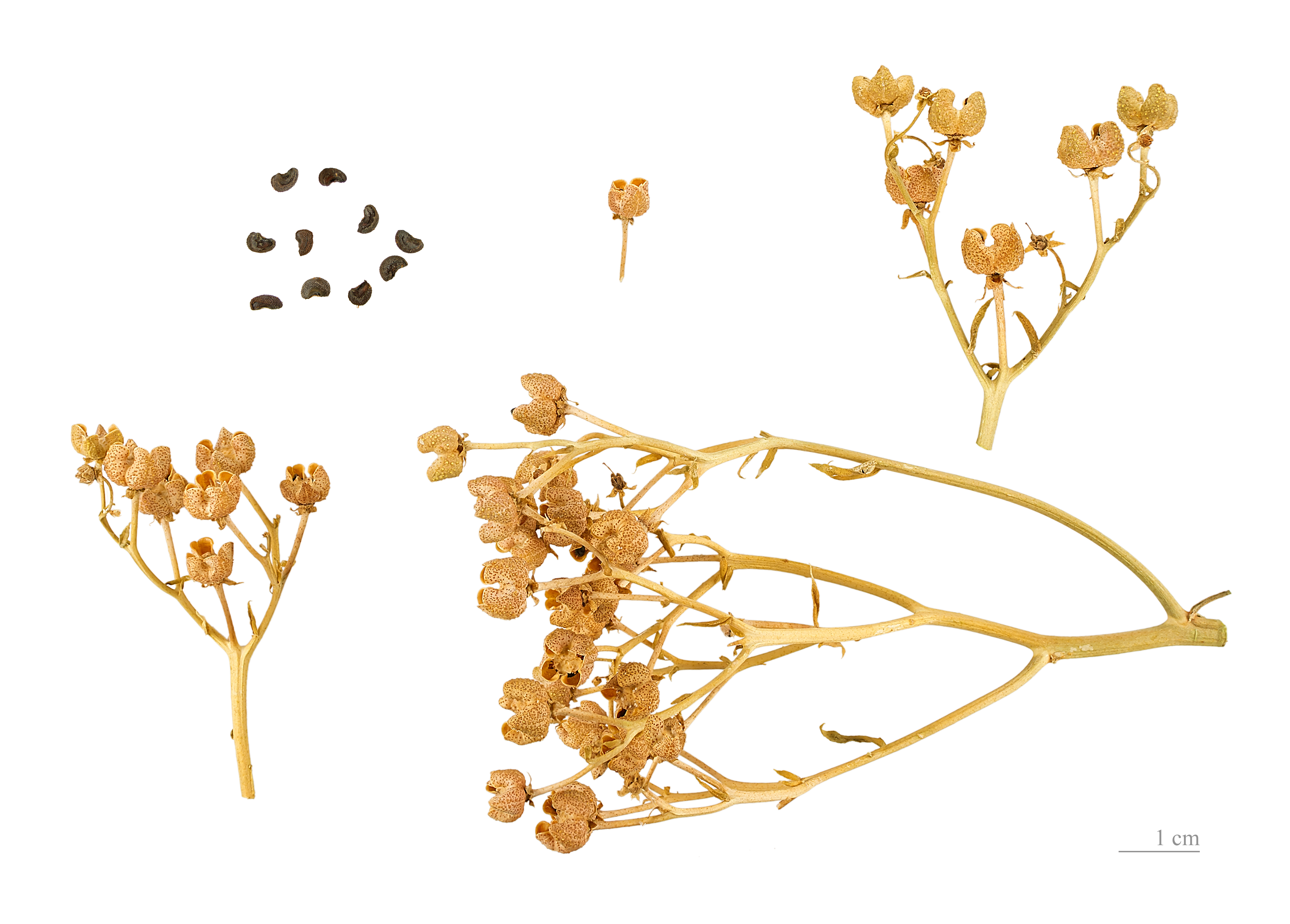 Common Rue, Capsules and seeds